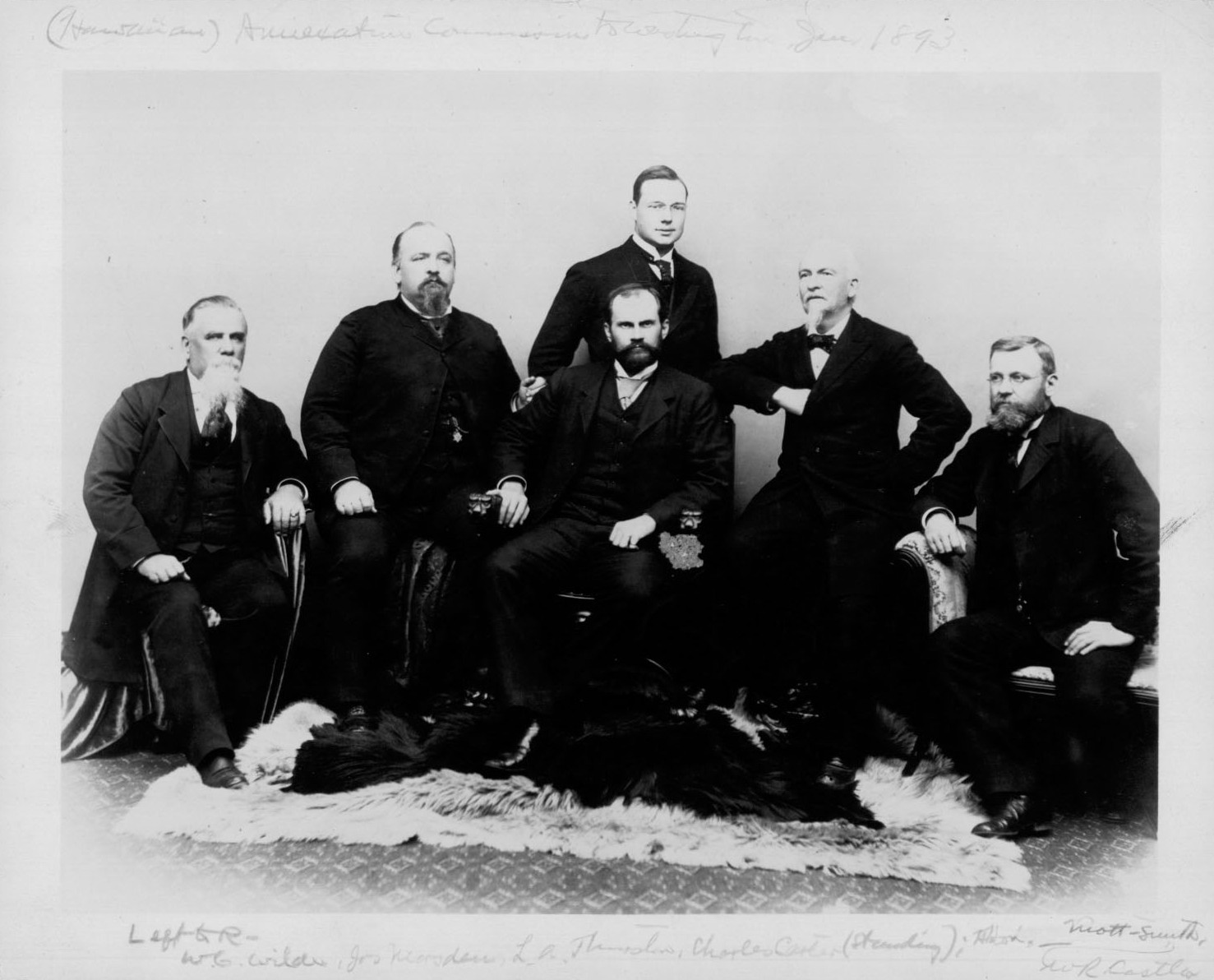 The Annexation Commission organized by the Provisional Government of Hawaii for the purpose of negotiating an annexation treaty with the United States. Sitting from left to right: William Chauncey Wilder, Joseph Marsden, Lorrin A. Thurston, John Mott-Smith, and William Richards Castle. Standing: Charles L. Carter.